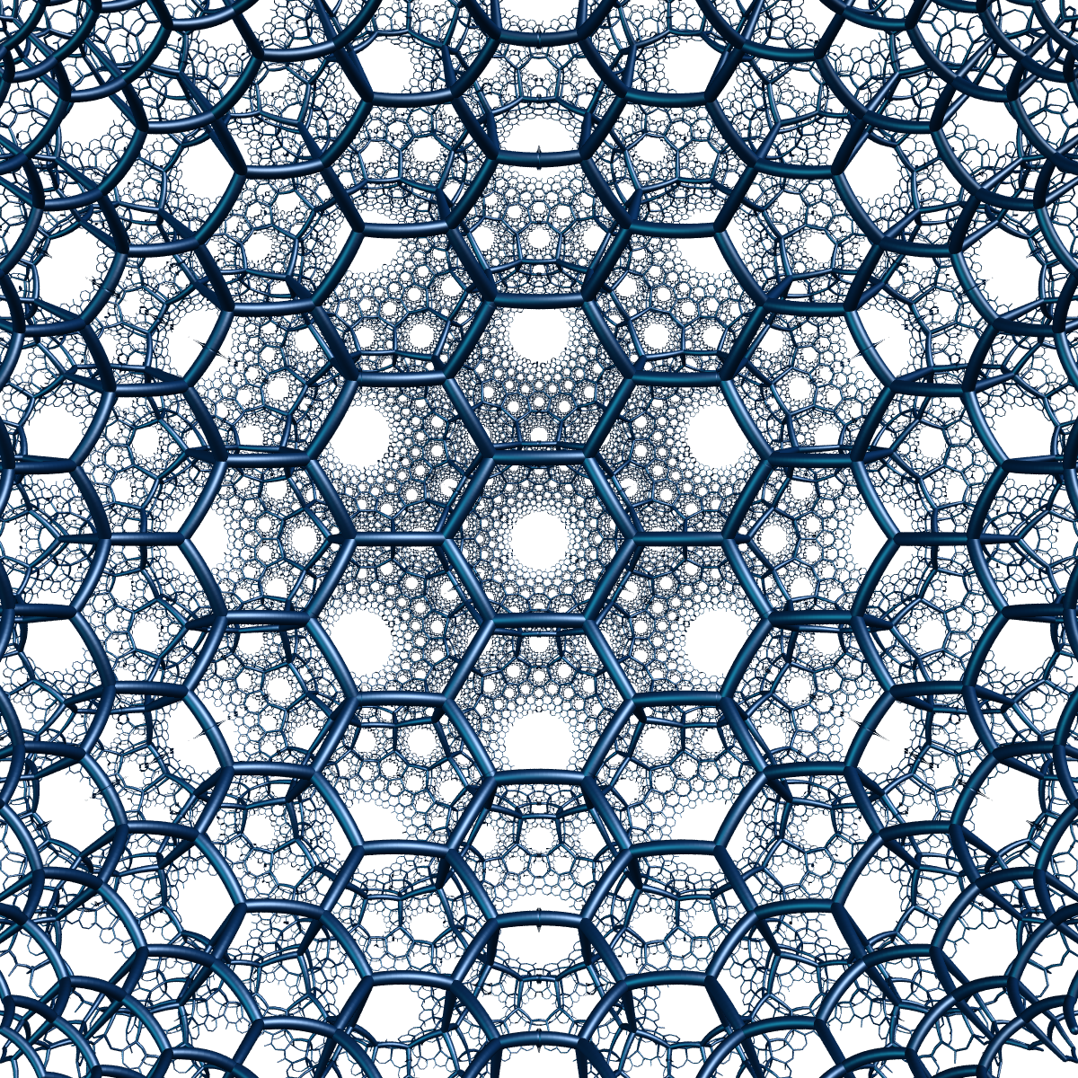 Hyperbolic 3d hexagonal tiling.